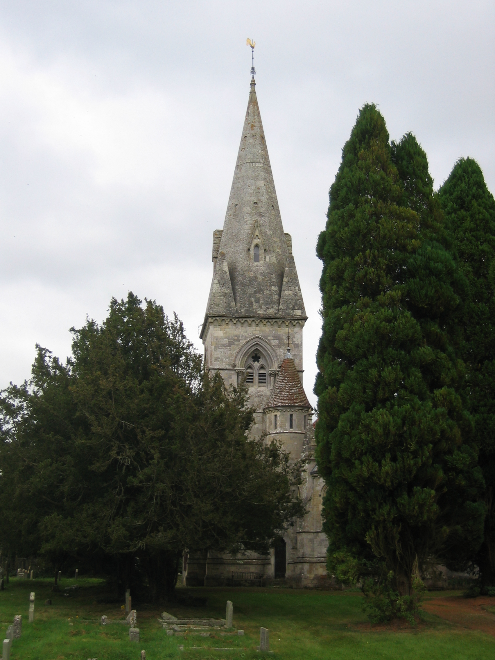 Tower and spire of Holy Trinity parish church, Fonthill Gifford, Wiltshire